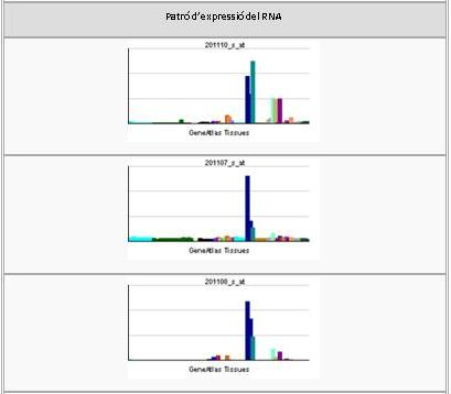 Results RNA